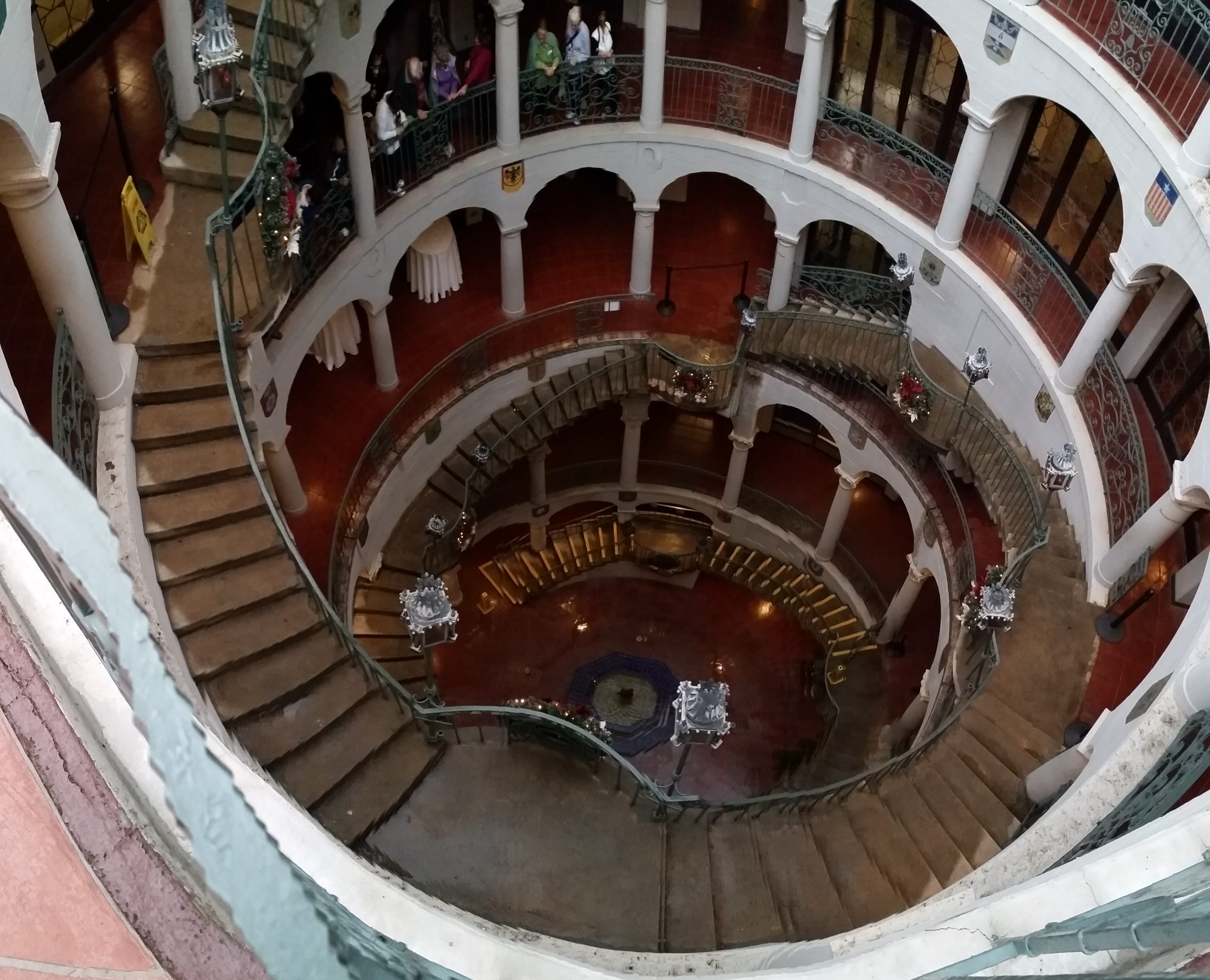 Mission Inn Interior